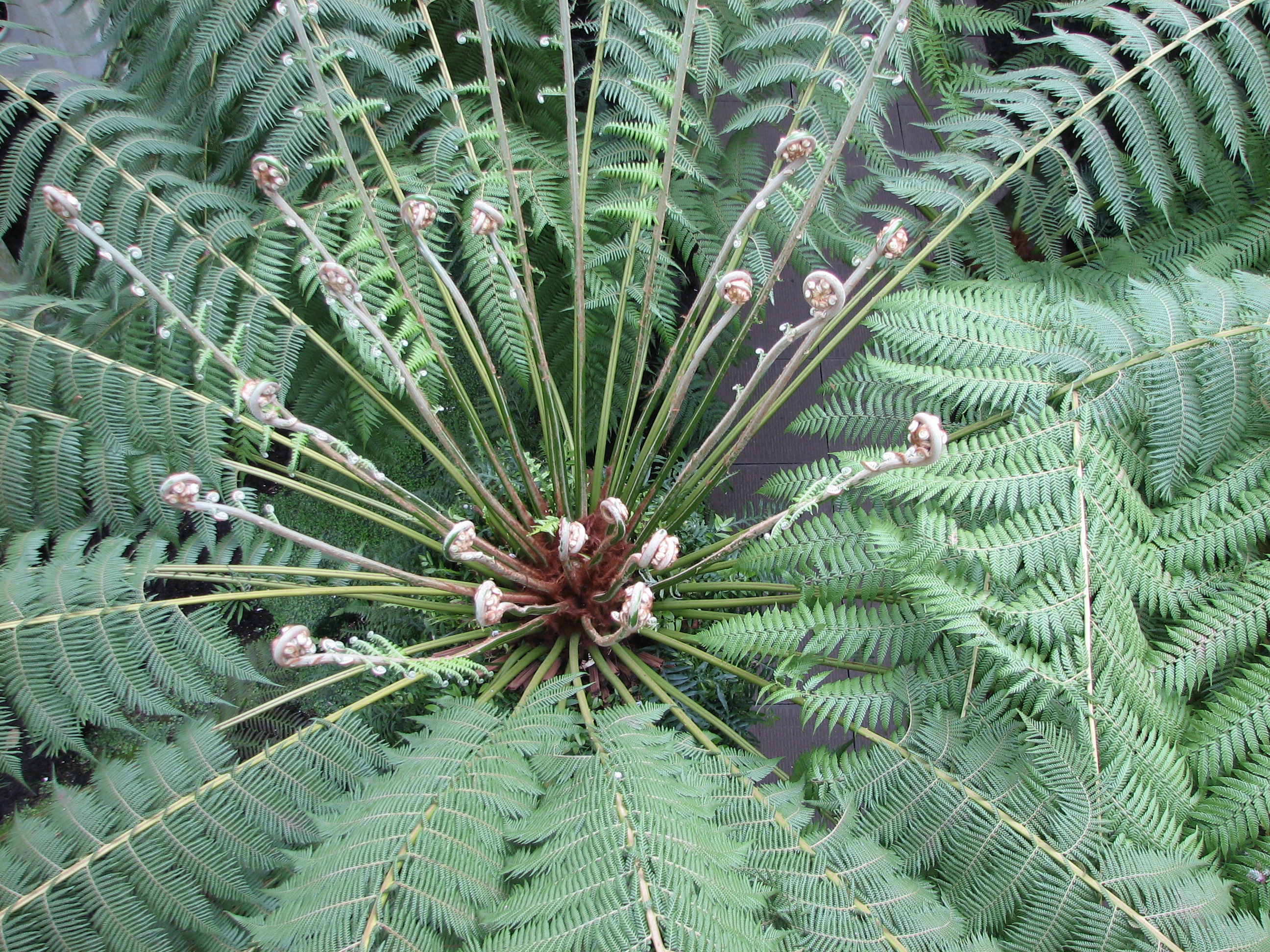 Dicksonia antarctica Labill. (Soft Tree Fern). Taken at Palm House, Kew Gardens, (London, UK)